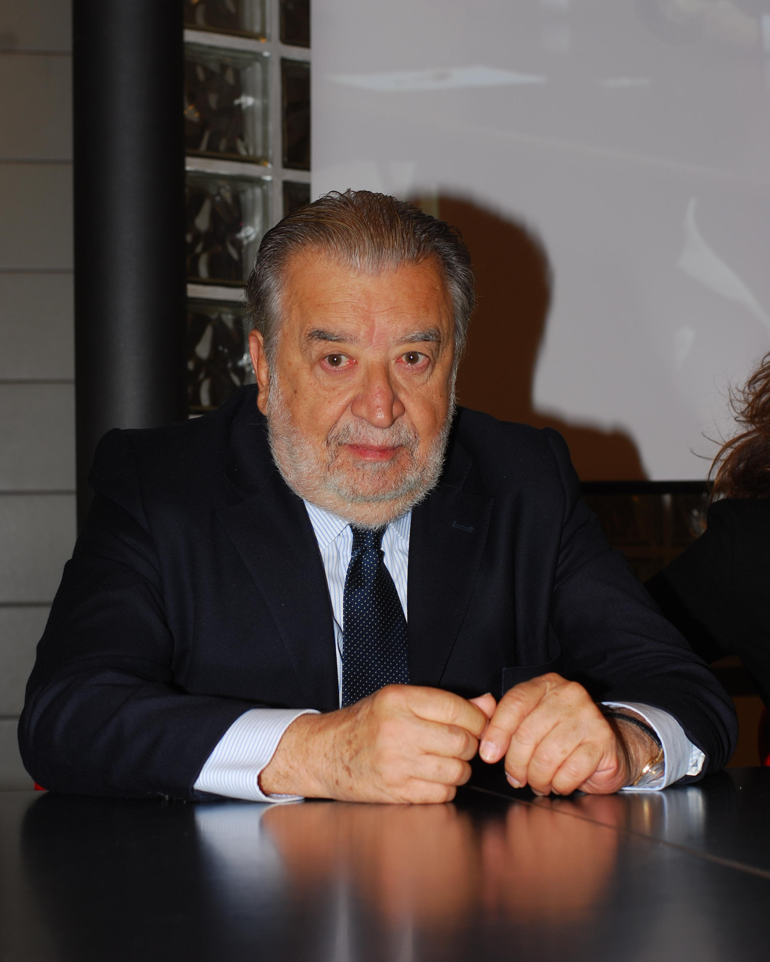 Pupi Avati, Italian film director